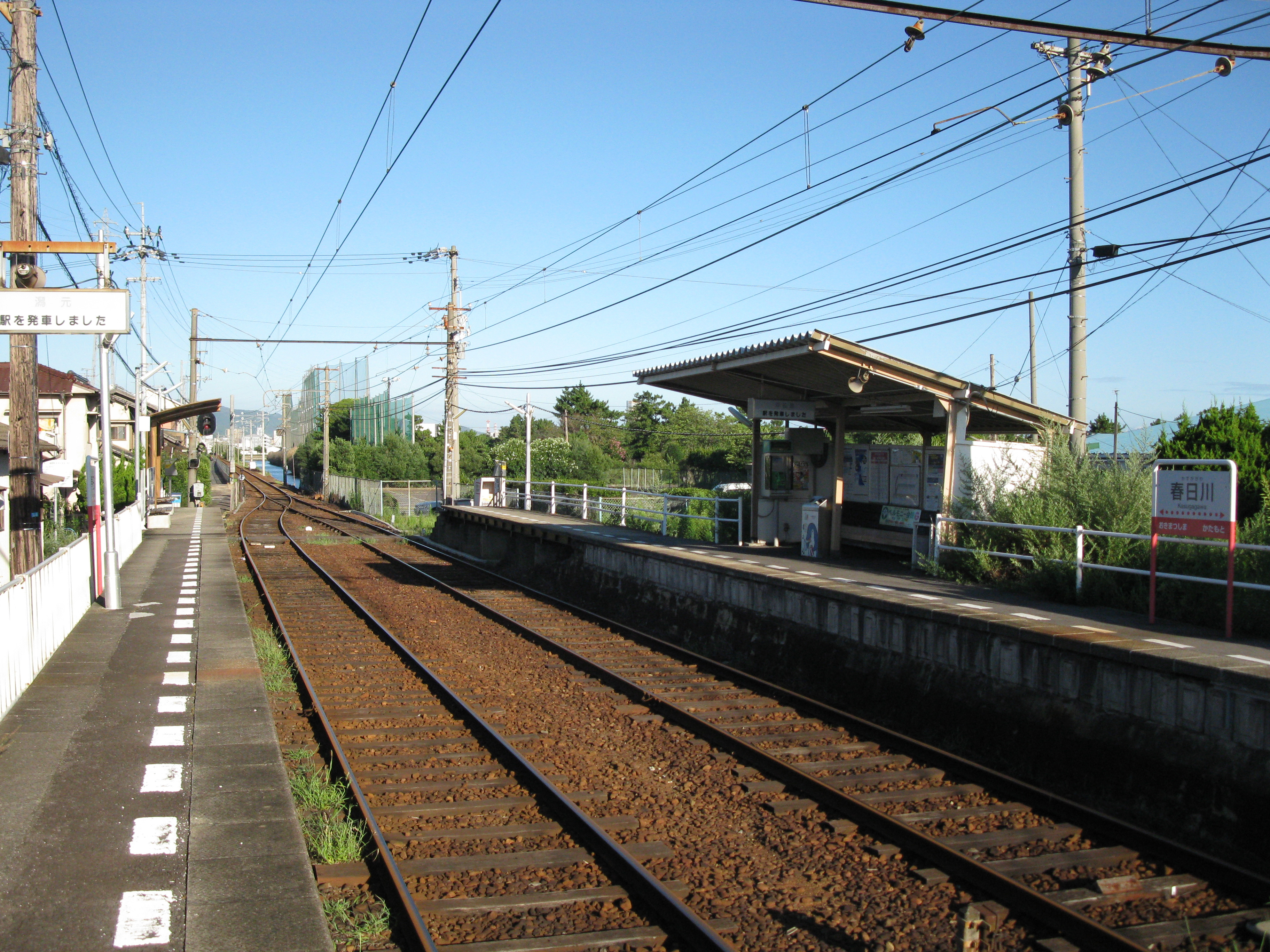 Kasugagawa Station platform (Takamatsu-Kotohira Electric Railroad(Kotoden) Shido Line)